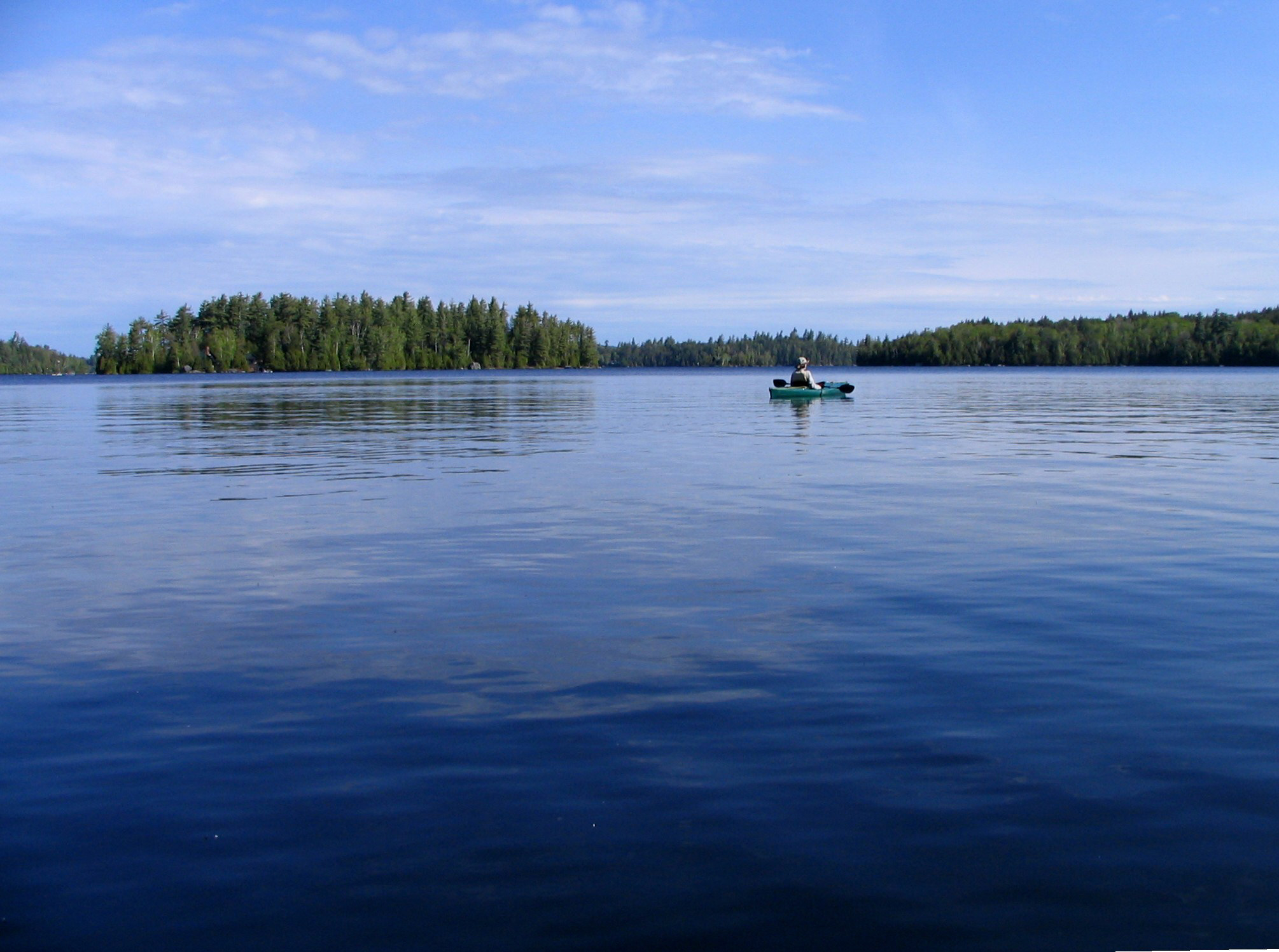 Upper Saranac Lake looking north from south end